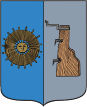 Borovichi (Novgorod oblast), coat of arms (1772)